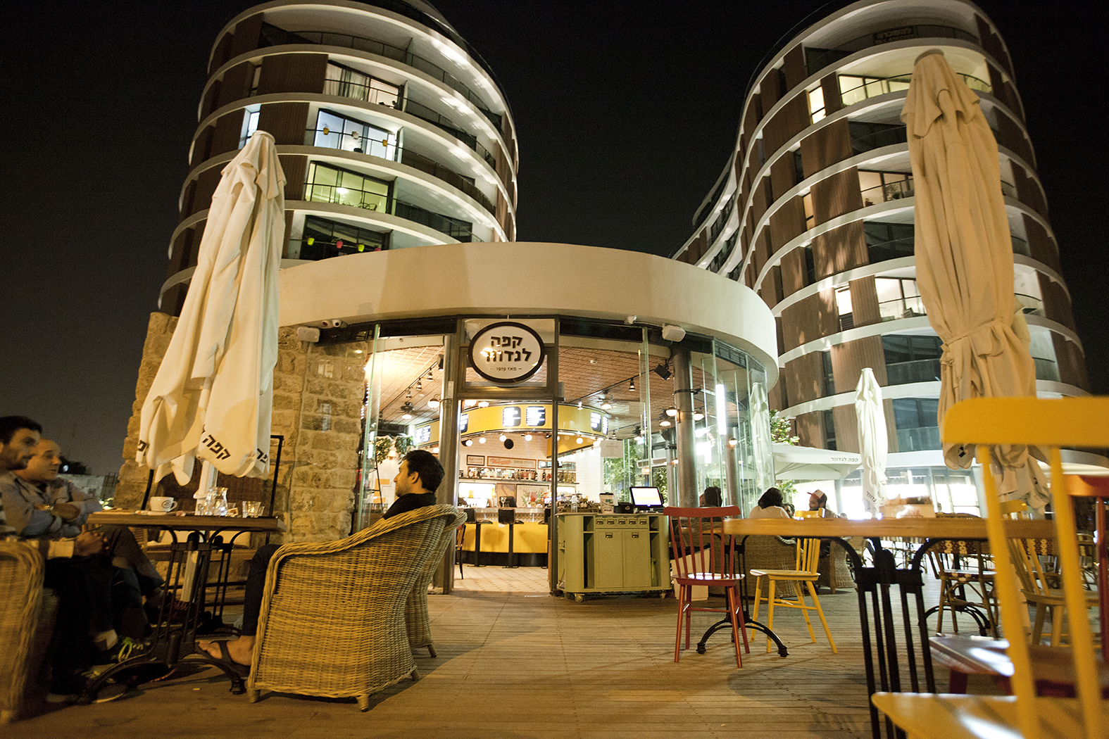 Tel Aviv Florentine 4 Building Project Аҧсшәа: מבט מקרוב על בנייני רביעיית פלורנטין שבתל-אביב